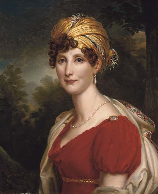 Eléonore (Anne Louise Madeleine Élisabeth) de Montmorency (1771-1828) married Alexandre, 7th Duke of Rohan in 1785.